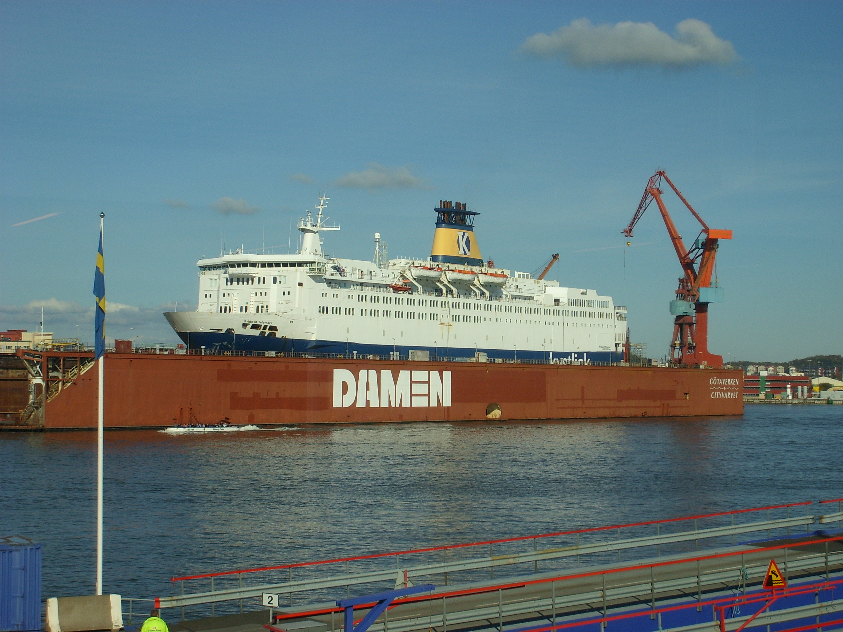 Pride of Telemark docked i Gothenburg oktober 2007 IMO Number: 7907257 MMSI Number: 259136000 Callsign: LNTC3 Length: 158 m Beam: 28 m